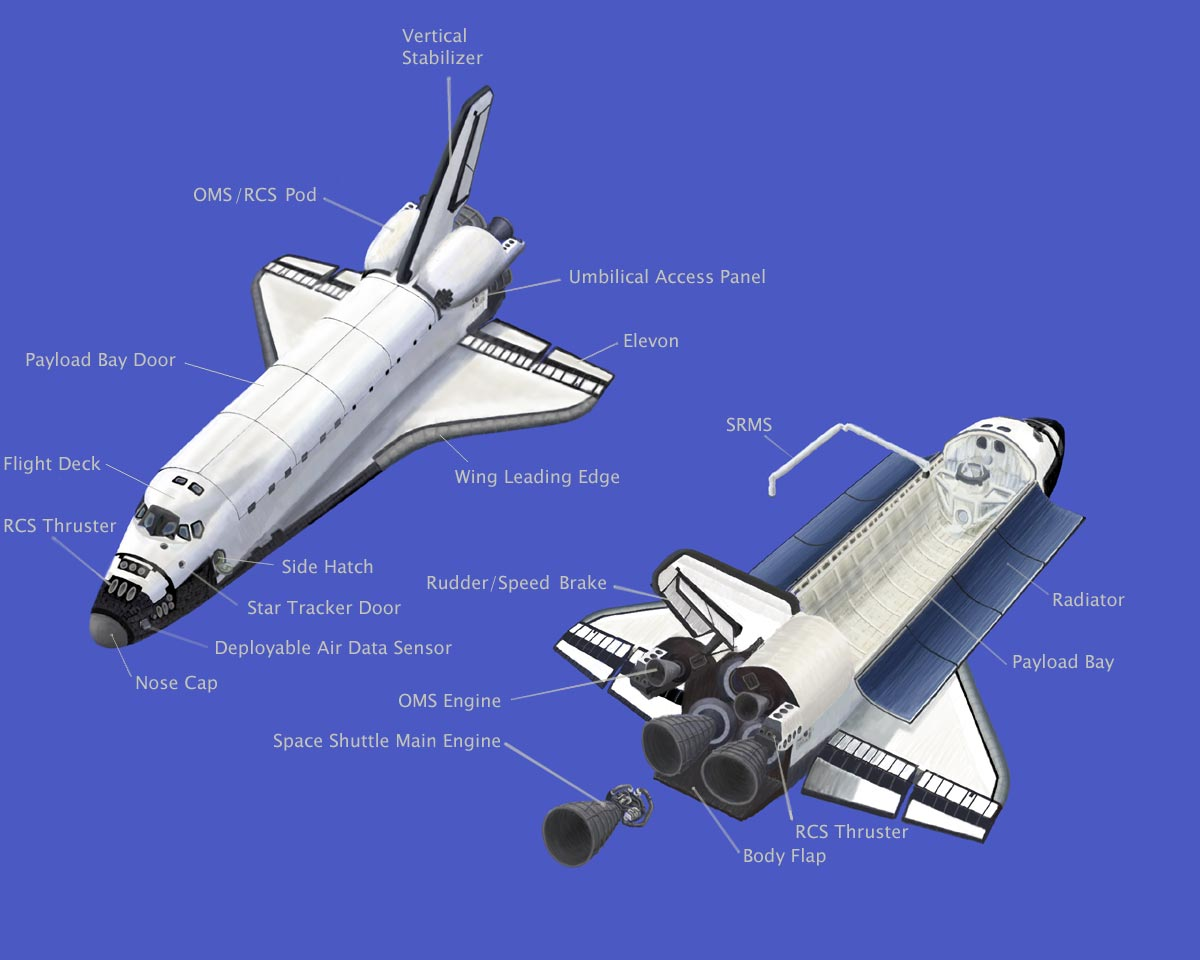 Space Shuttle Orbital Vehicle Image:Stsobtvcl.jpg Hình:Stsobtvcl.jpg